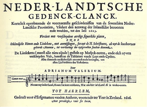 Dutch songs from Adriaen Valerius, printed in 1626 in Haarlem (The Netherlands)